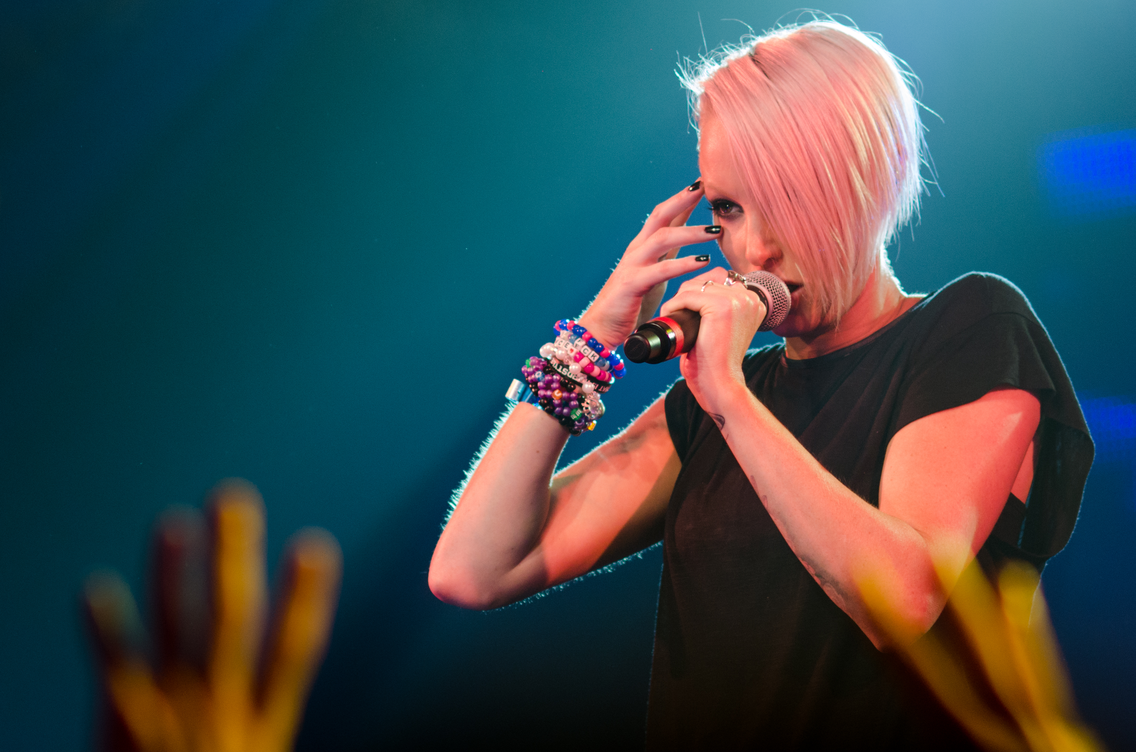 Emma Hewitt performing at an Odin Works event at The Republik in Honolulu, Hawaii. April 17, 2014 Photo by: Peter Chiapperino